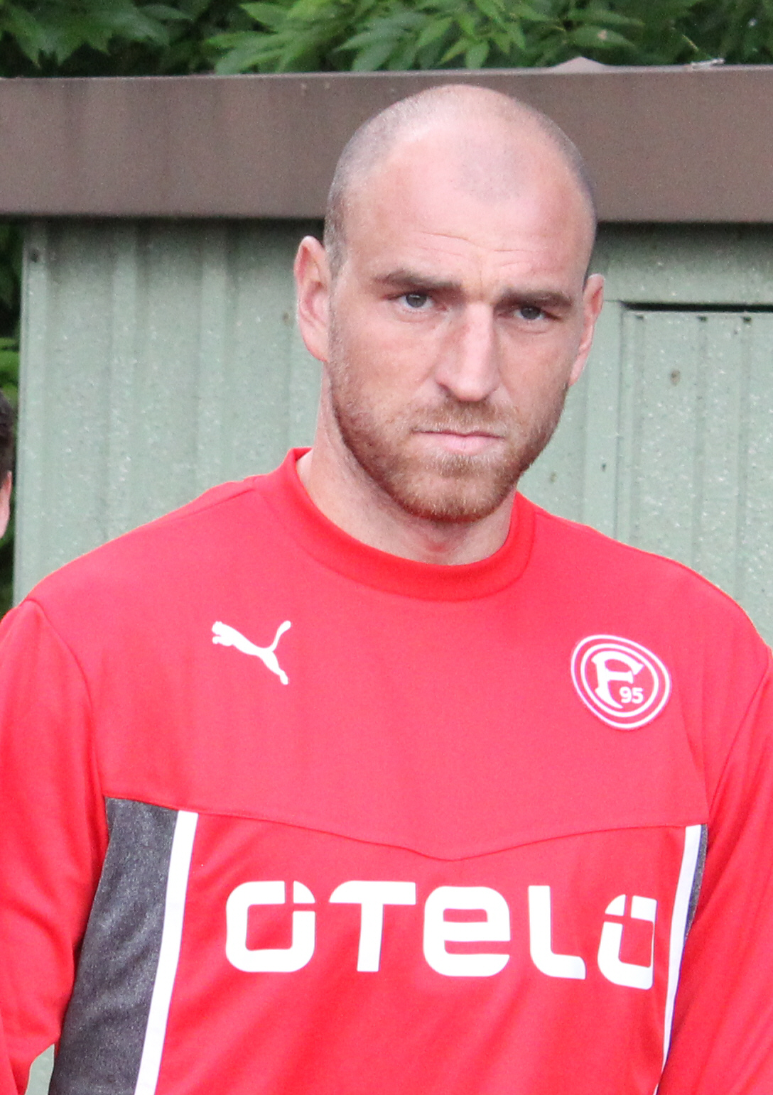 Martin Latka, Czech footballer, 2013 in Esens